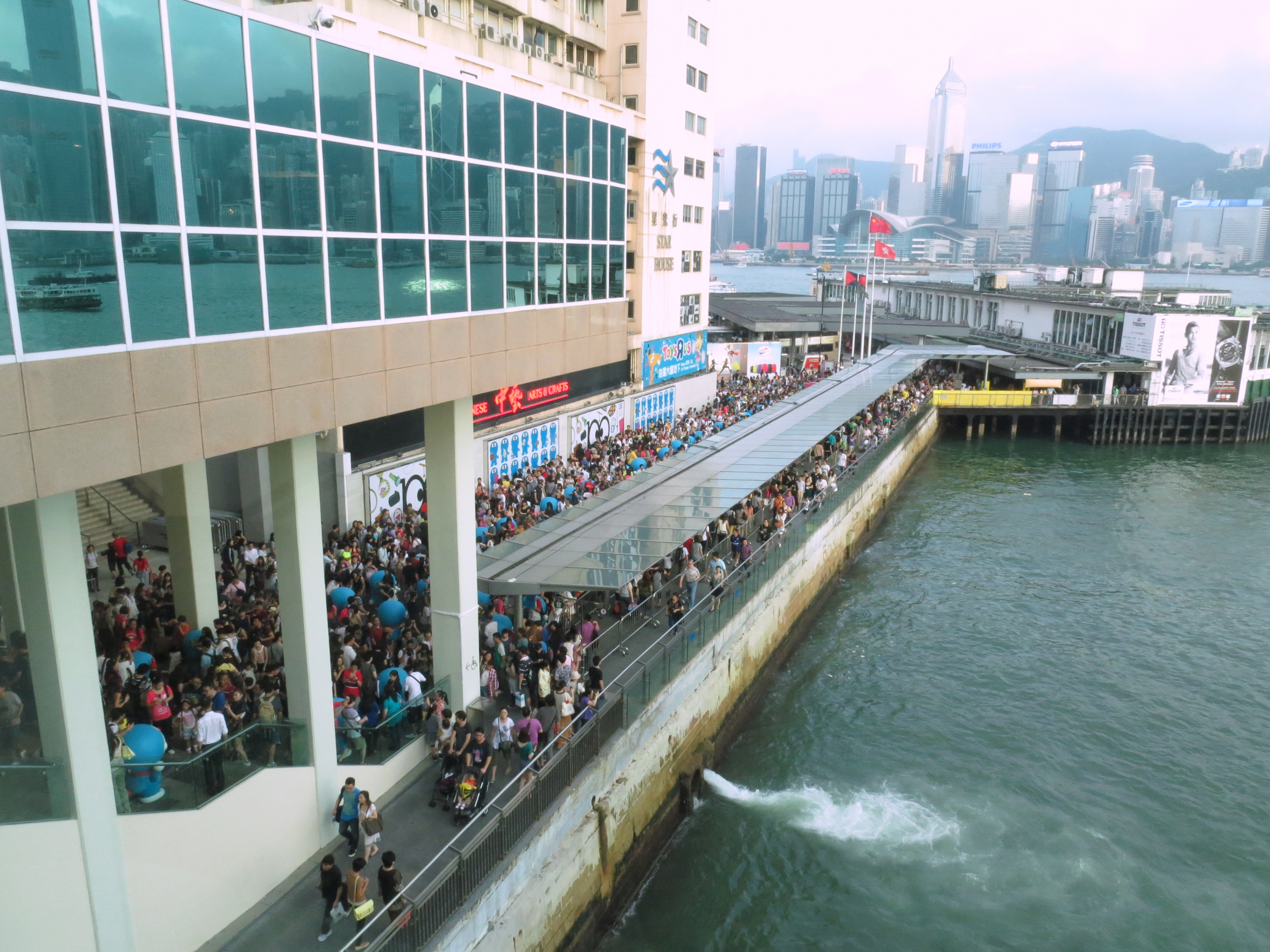 Ocean Terminal Forecourt, Harbour City, Kowloon, Hong Kong.